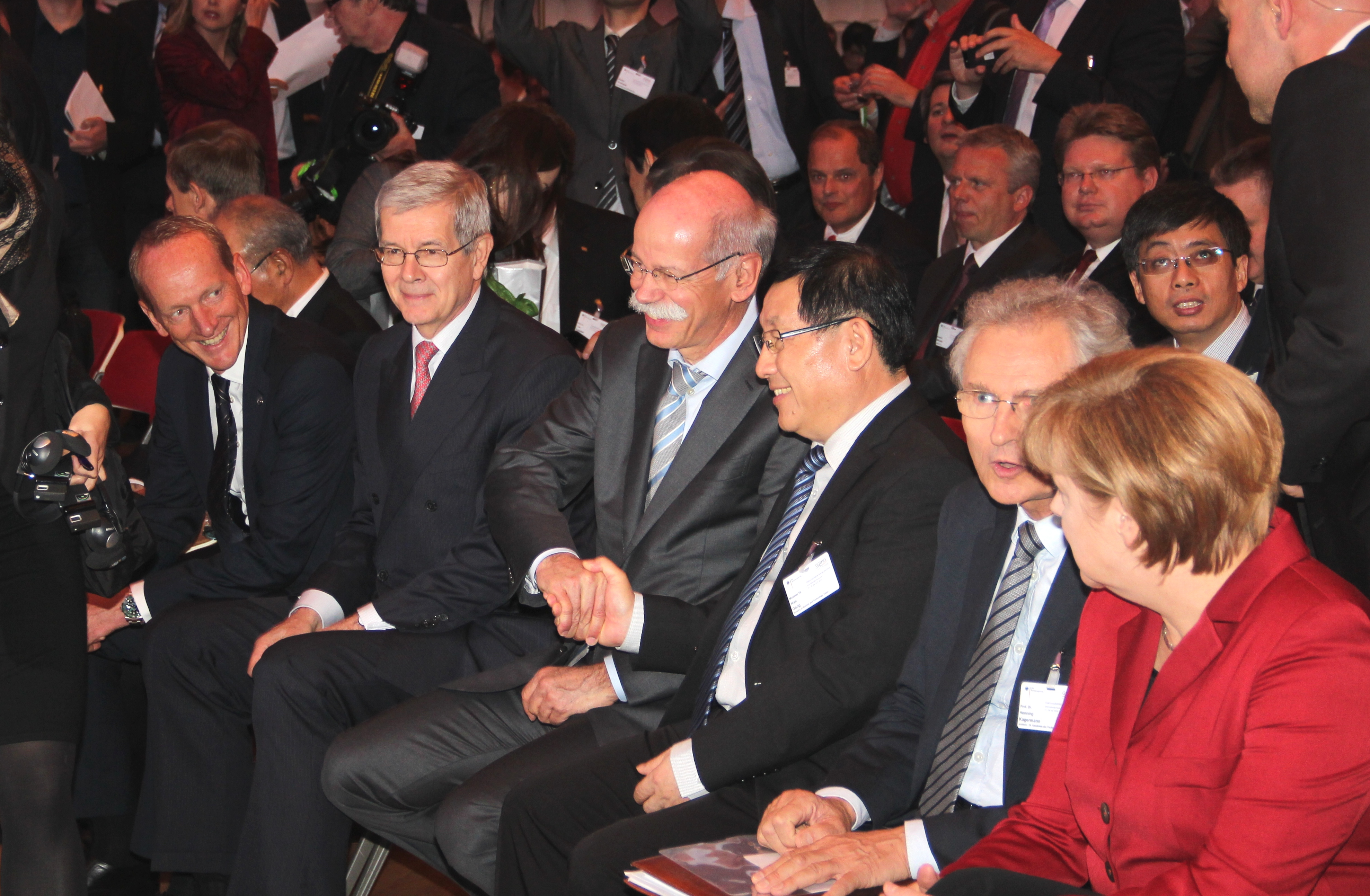 CEOs of Opel (Neumann), Peugeot (Varin), Daimler (Zetsche) with Chinese Automotive Representative (Wan Gang) and Angela Merkel